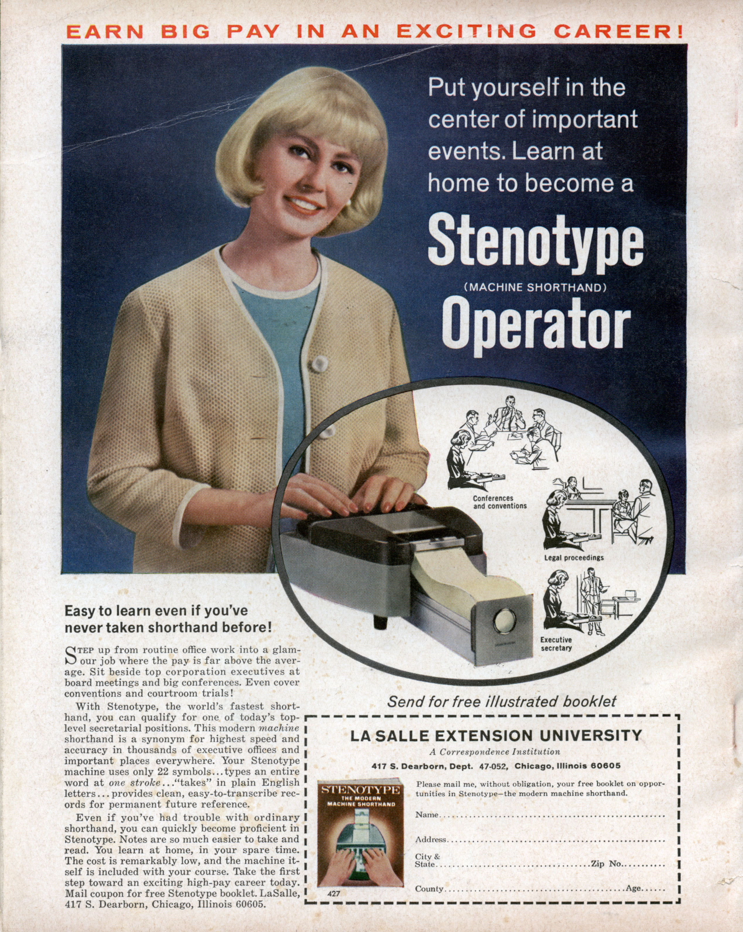 EARN BIG PAY IN AN EXCITING CAREER! Put yourself in the center of important events. Learn at home to become a Stenotype (MACHINE SHORTHAND) Operator Easy to learn even if you’ve never taken shorthand before! Step up from routine office work into a glamour job where the pay is far above the average. Sit beside top corporation executives at board meetings and big conferences. Even cover conventions and courtroom trials! With Stenotype, the world’s fastest shorthand, you can qualify for one of today’s top-level secretarial positions. This modern machine shorthand is a synonym for highest speed and accuracy in thousands of executive offices and important places everywhere. Your Stenotype machine uses only 22 symbols…types an entire word at one stroke.. .”takes” in plain English letters… provides clean, easy-to-transcribe records for permanent future reference. Even if you’ve had trouble with ordinary shorthand, you can quickly become proficient in Stenotype. Notes are so much easier to take and read. You learn at home, in your spare time. The cost is remarkably low, and the machine itself is included with your course. Take the first step toward an exciting high-pay career today. Mail coupon for free Stenotype booklet. LaSalle, 417 S. Dearborn, Chicago, Illinois 60605. LASALLE EXTENSION UNIVERSITY A Correspondence Institution 417 S. Dearborn, Dept. 47-052, Chicago, Illinois 60605